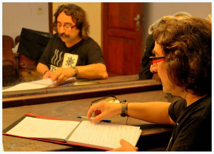 El poeta uruguayo Elder Silva, en el marco de un recital brindado en Montevideo.